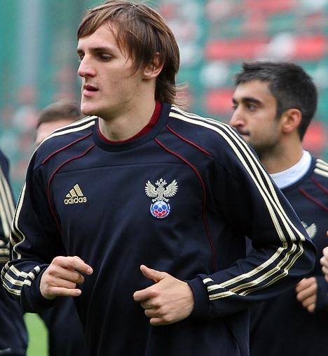 Vladimir Dyadyun with the Russia national football team.